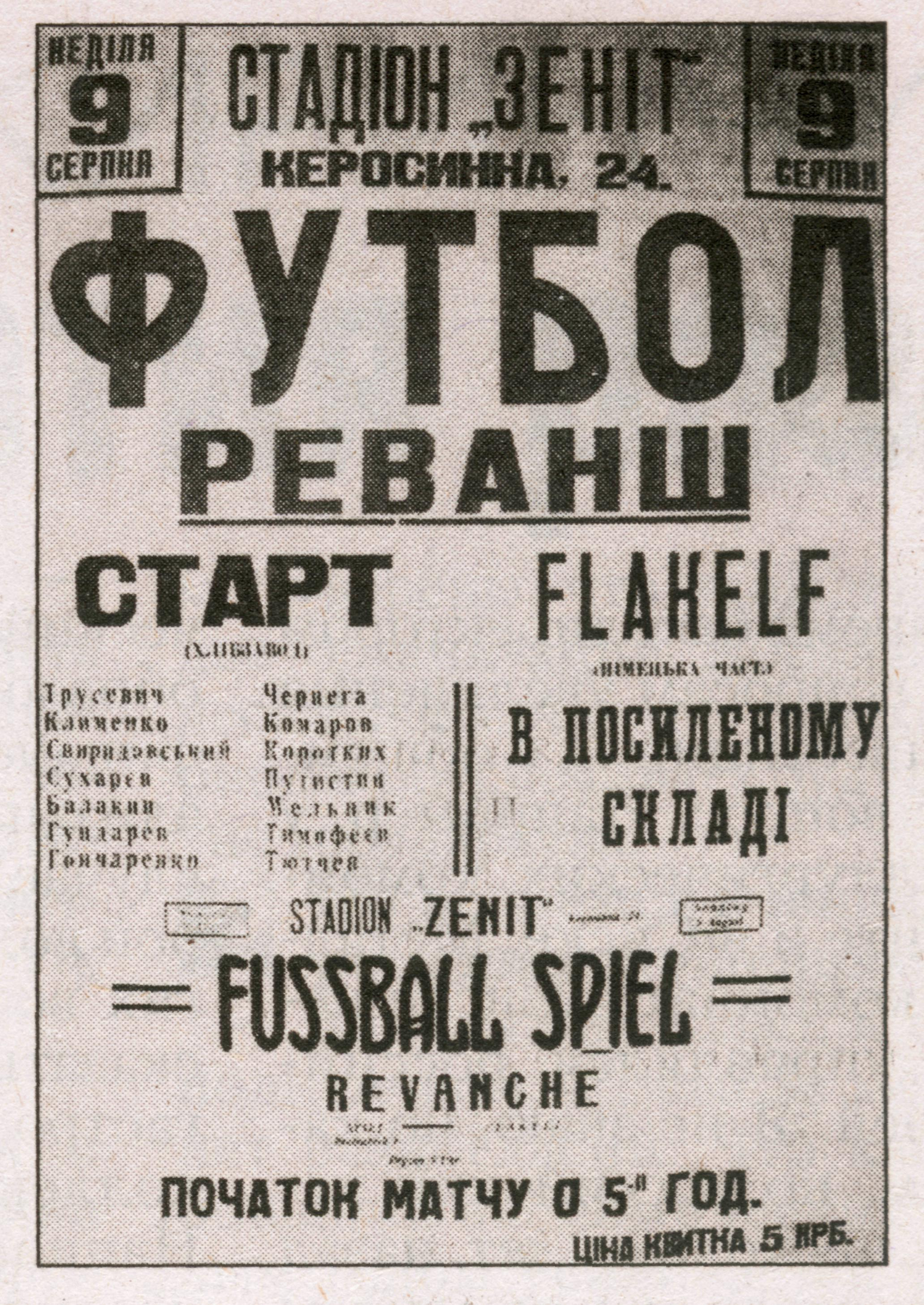 Poster of the Soccer match between Ukrainian «Start» team of the Kyiv Breadbackery and German «Flakelf» Team of Air Defence Units, stationed in Kyiv, on Zenith Stadium in Kyiv on Aug 9th 1942. The match was presented by Soviet propaganda as the "Death Match" of FC Dynamo Kyiv. Text of the Poster in Ukrainian and